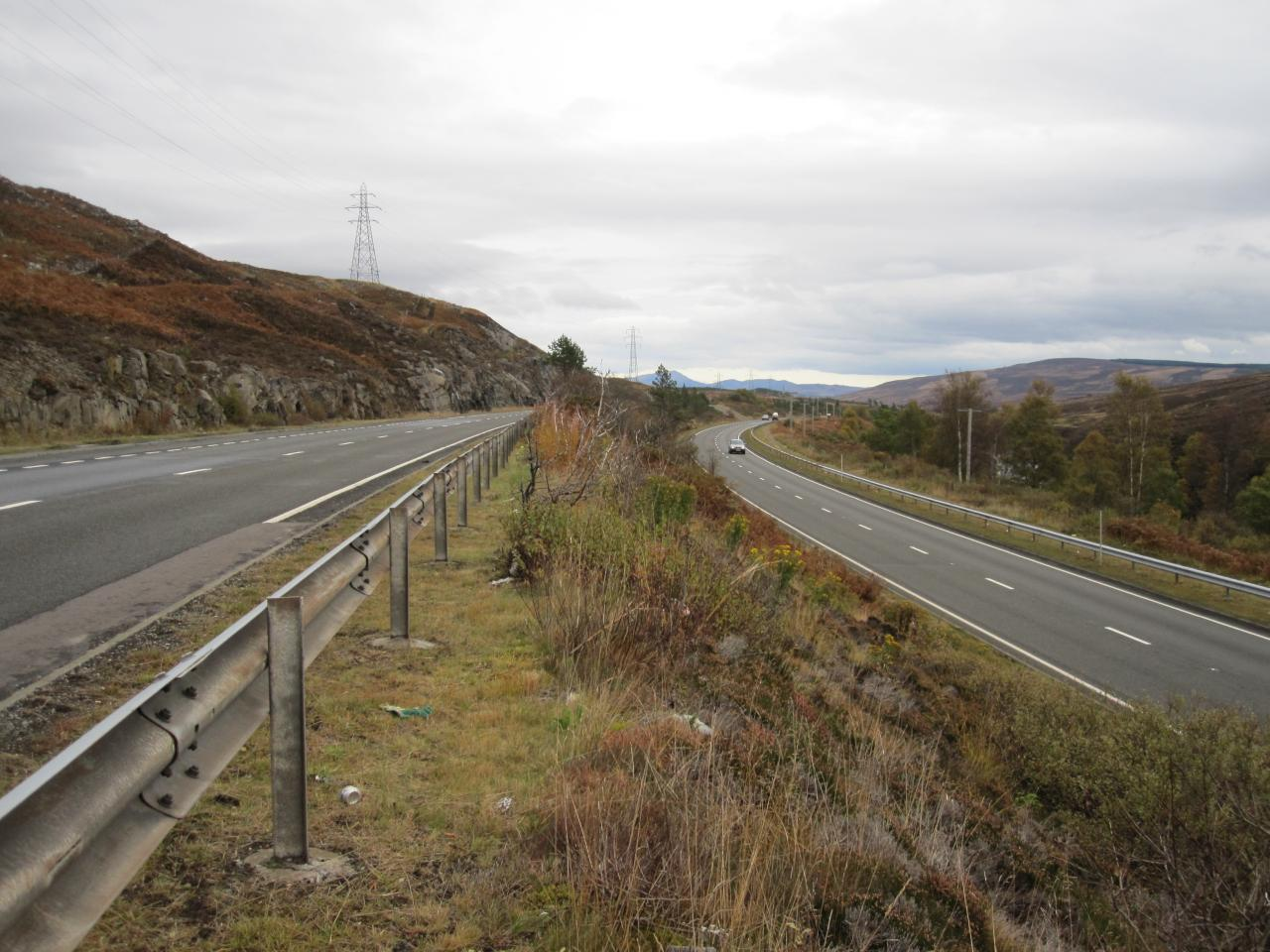 The split level dual carriageway between Dalnacardoch and Dalnaspidal, looking south.